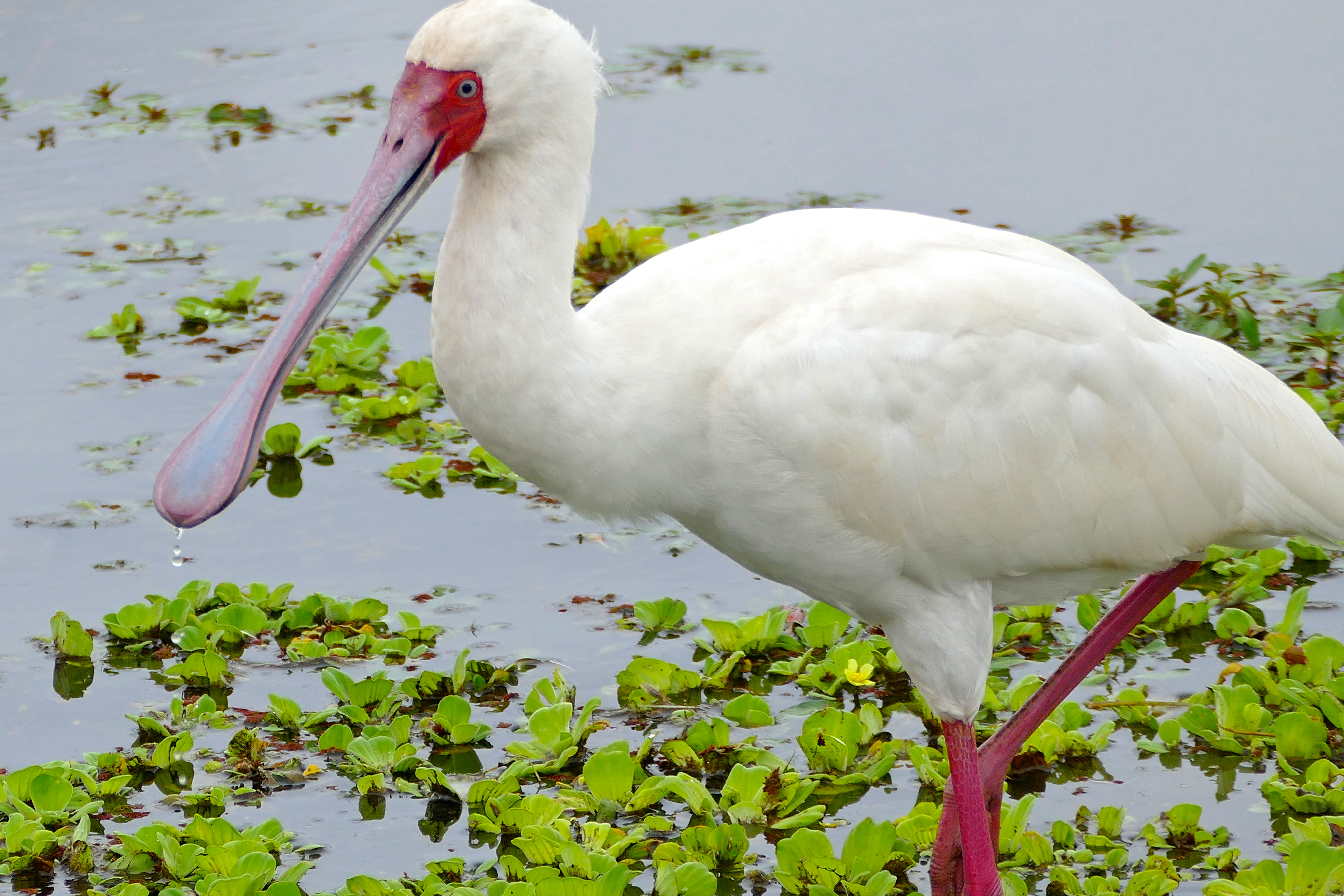 Sabie Bridge, H10 Road South of Lower Sabie, Kruger NP, Mpumalanga, SOUTH AFRICA